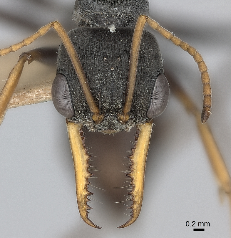 Specimen photograph of M. pilosula front